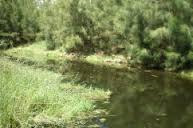 A picture of Clear Paddock Creek.